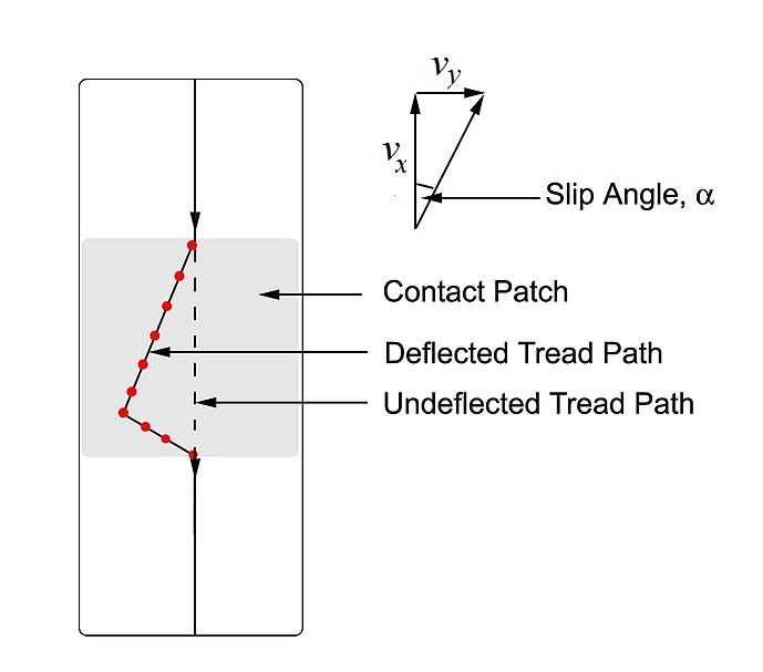 Tyre deformation under cornering, illustrating slip angle.